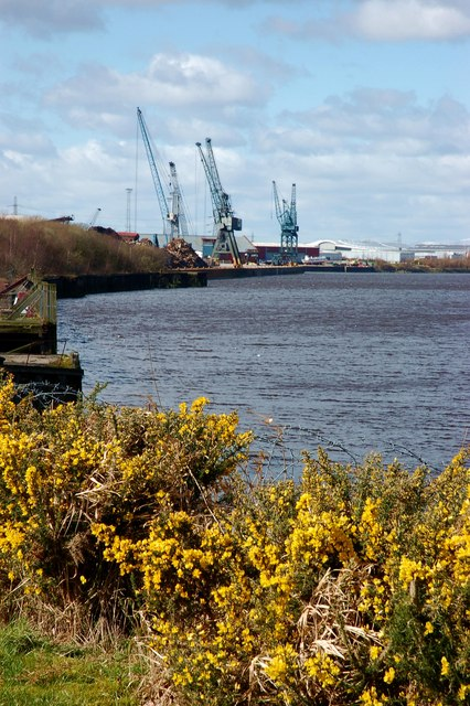 River Clyde Looking Towards King George V Dock. The only Dock left on the upper reaches of the Clyde.